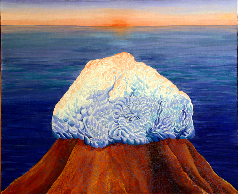 Painting by Lola Lonli. "White Hot Alatyr Stone". 2000. Egg tempera on canvas. 70 x 85 cm